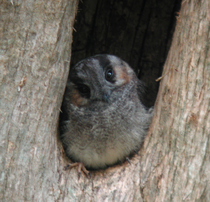 Australian Owlet-nightjar (Aegotheles cristatus) Samsonvale Cemetery, SE Queensland, Australia